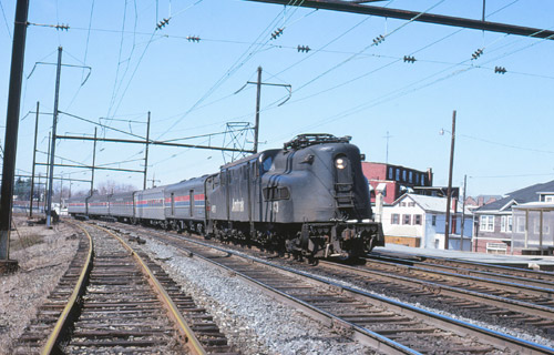 The eastbound Broadway Limited passes through Middletown station in April 1980